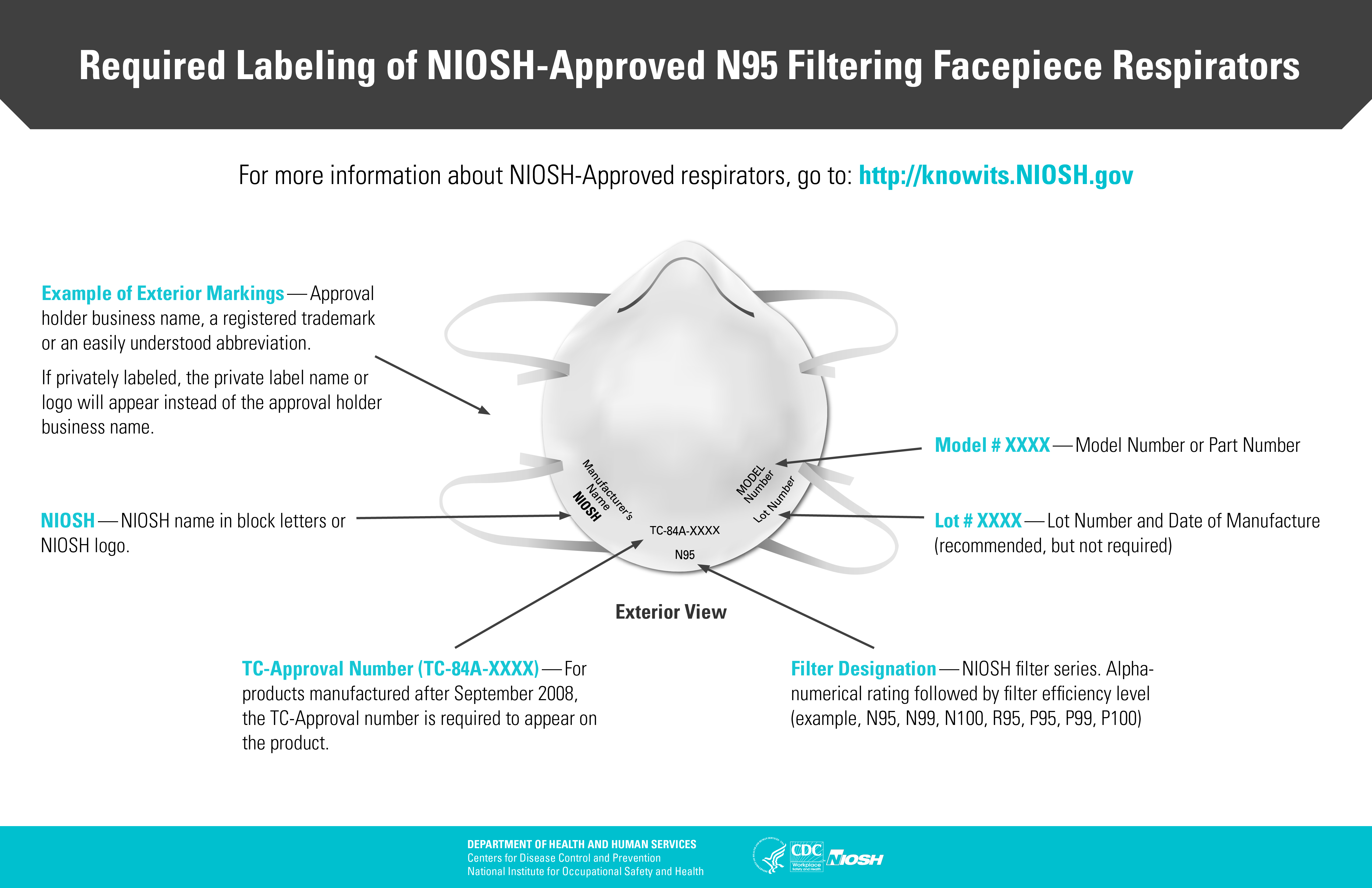 An infographic showing proper labeling of NIOSH approved N95 respirators